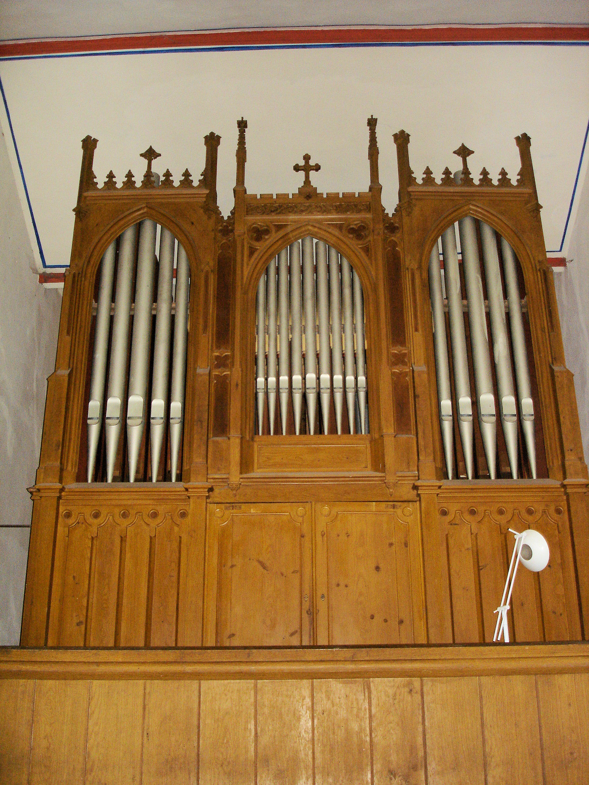 Organ in the church in Beidendorf, Mecklenburg, Germany